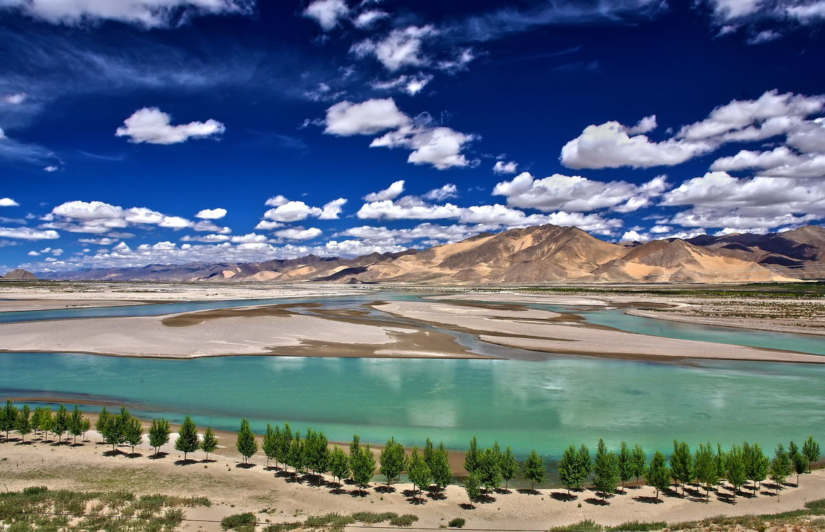 Brahmaputra River, Shigatse, Tibet. canon 5D 28-70L B+W Slim CPL